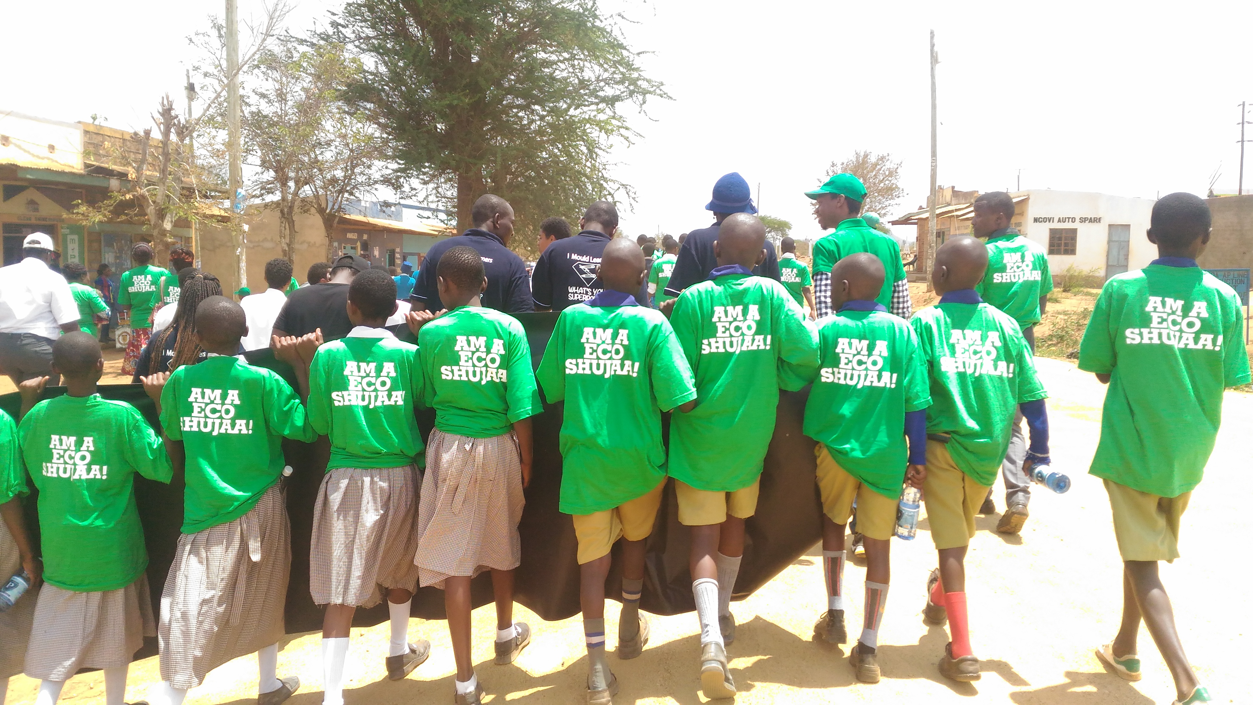 school children taking part in a walk to create awareness about advancing desertification of Kitui County This is an image of "African people at work" from Kenya